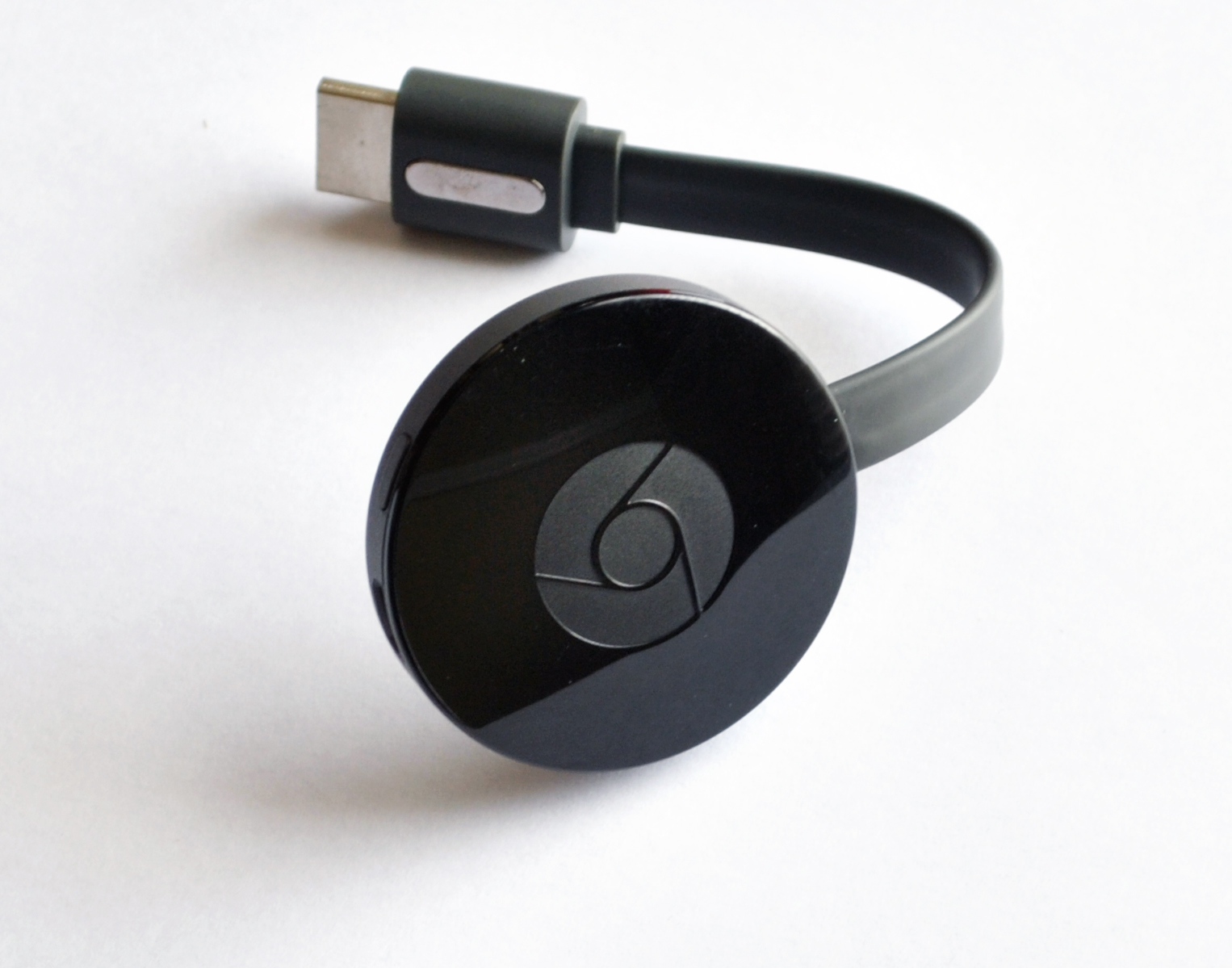 The second-generation model of Google's digital media streamer Chromecast